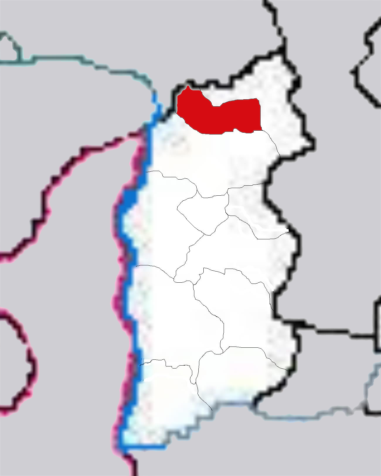 Maps of Shanxi Province of China